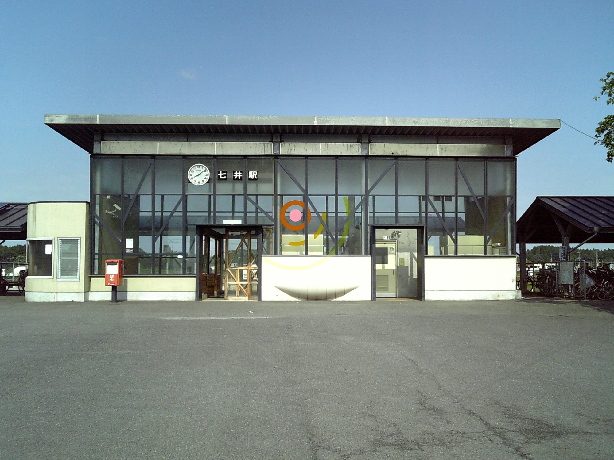 Moka Railway Moka Line Nanai Station.